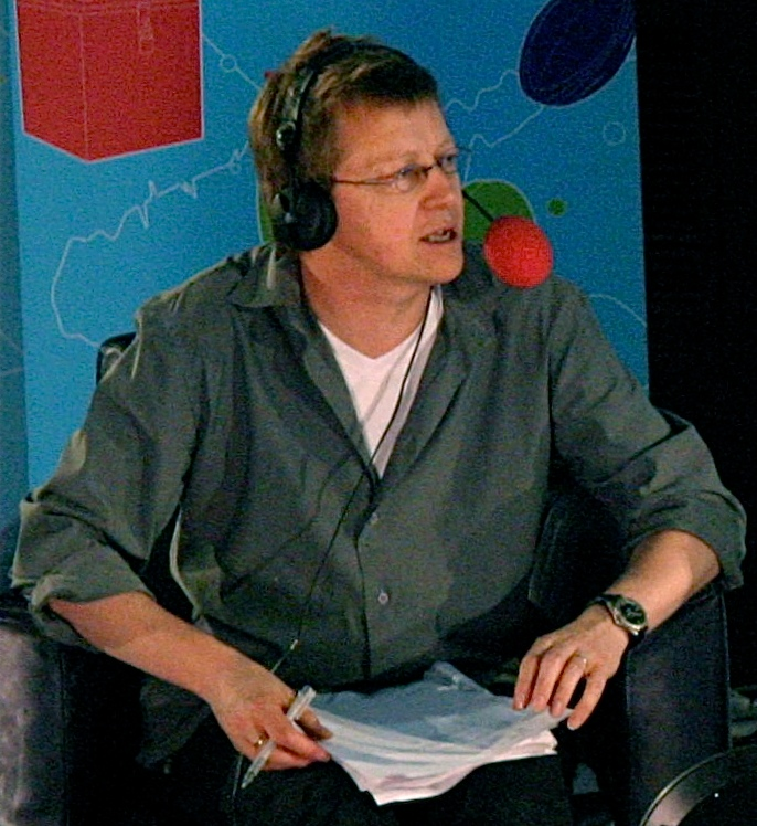 crop of Simon Mayo from image of Wiitertainment live with Bill Forsyth and Mark Kermode